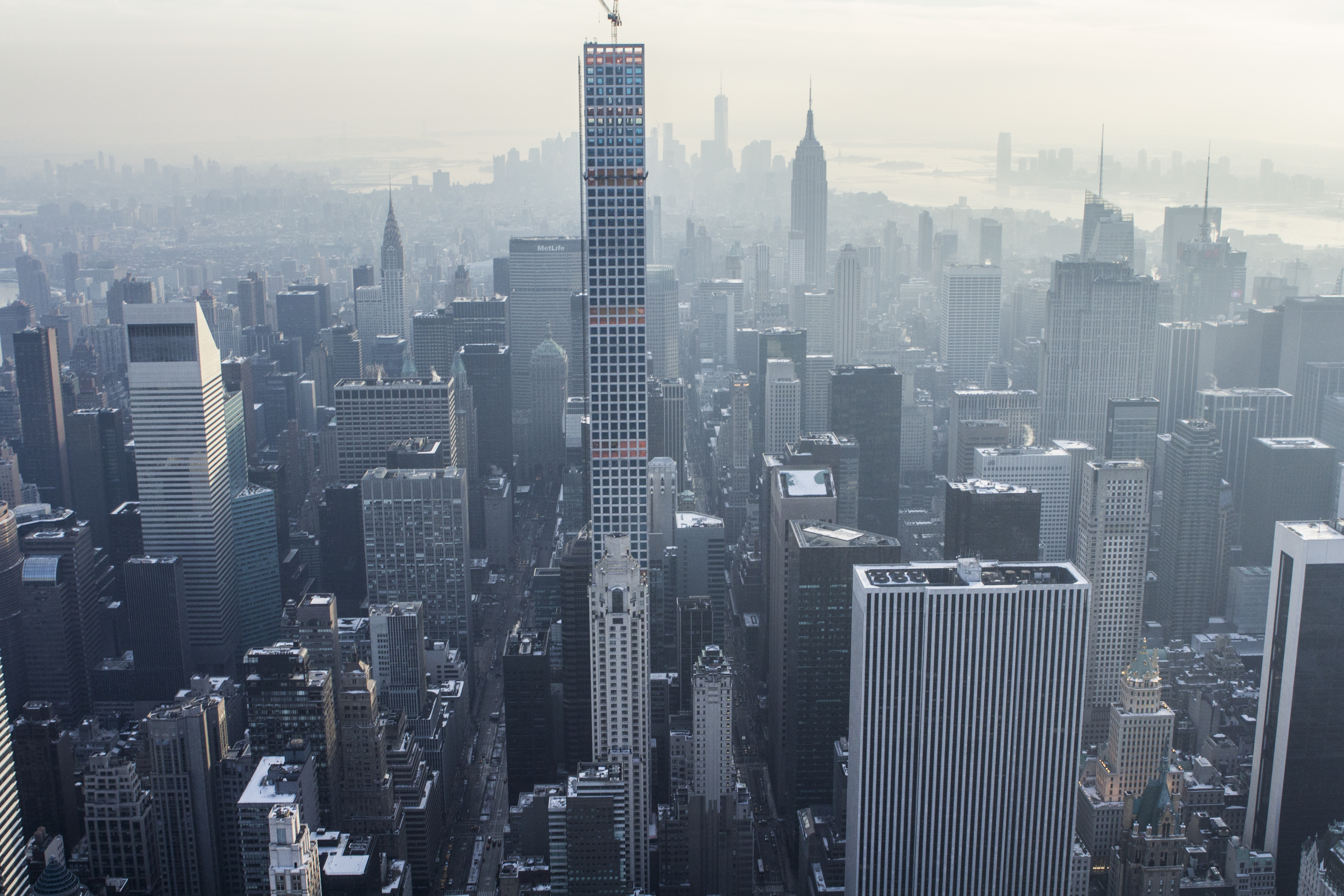 432 Park Avenue from the air, late March 2015.